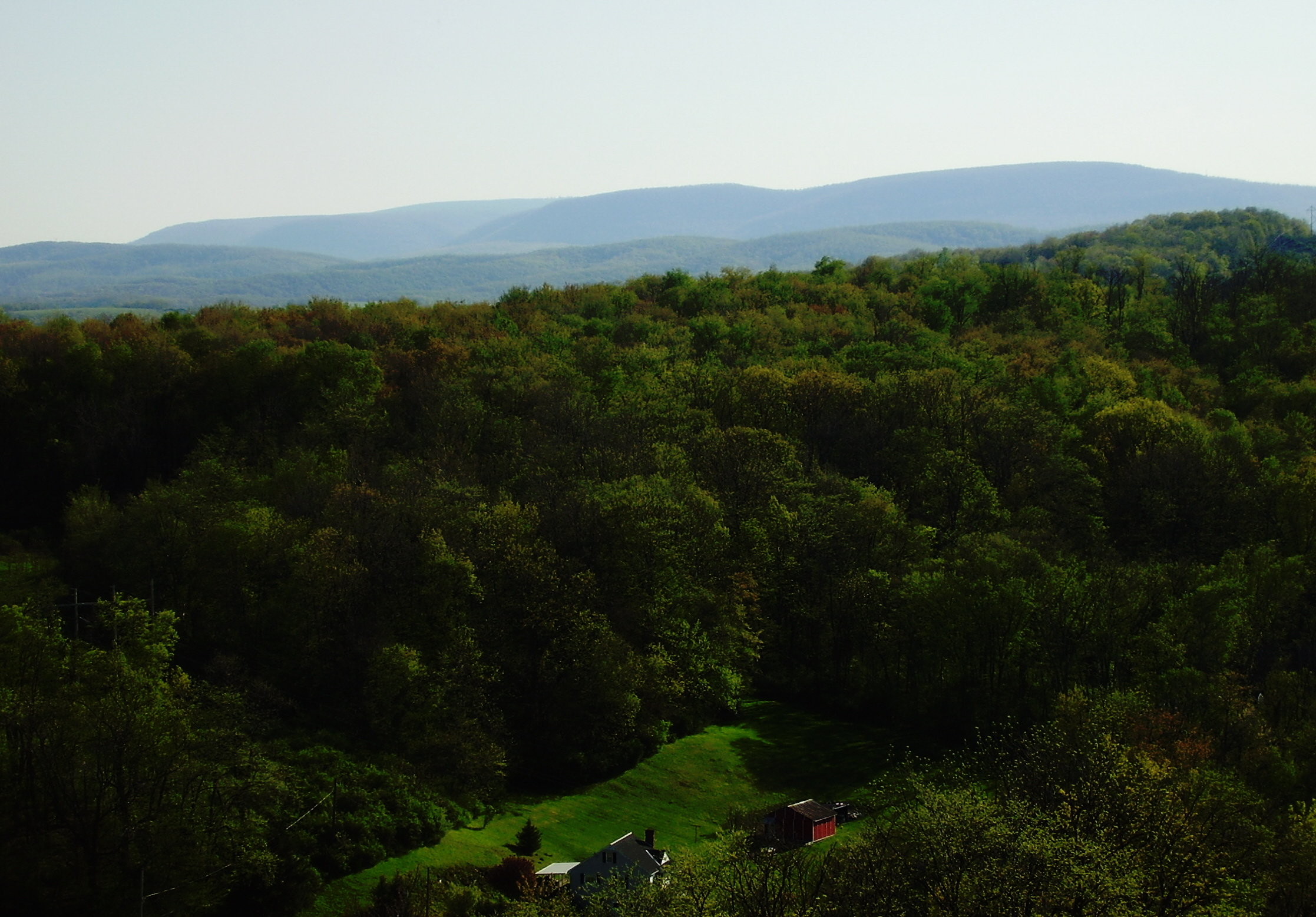 Blue Knob Massif from Chimney Rocks.